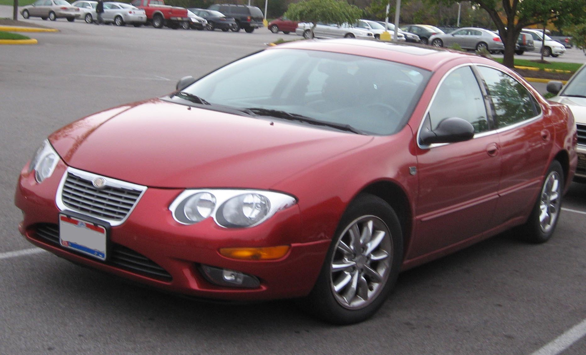 2002-2004 Chrysler 300M photographed in Toledo, Ohio, USA.